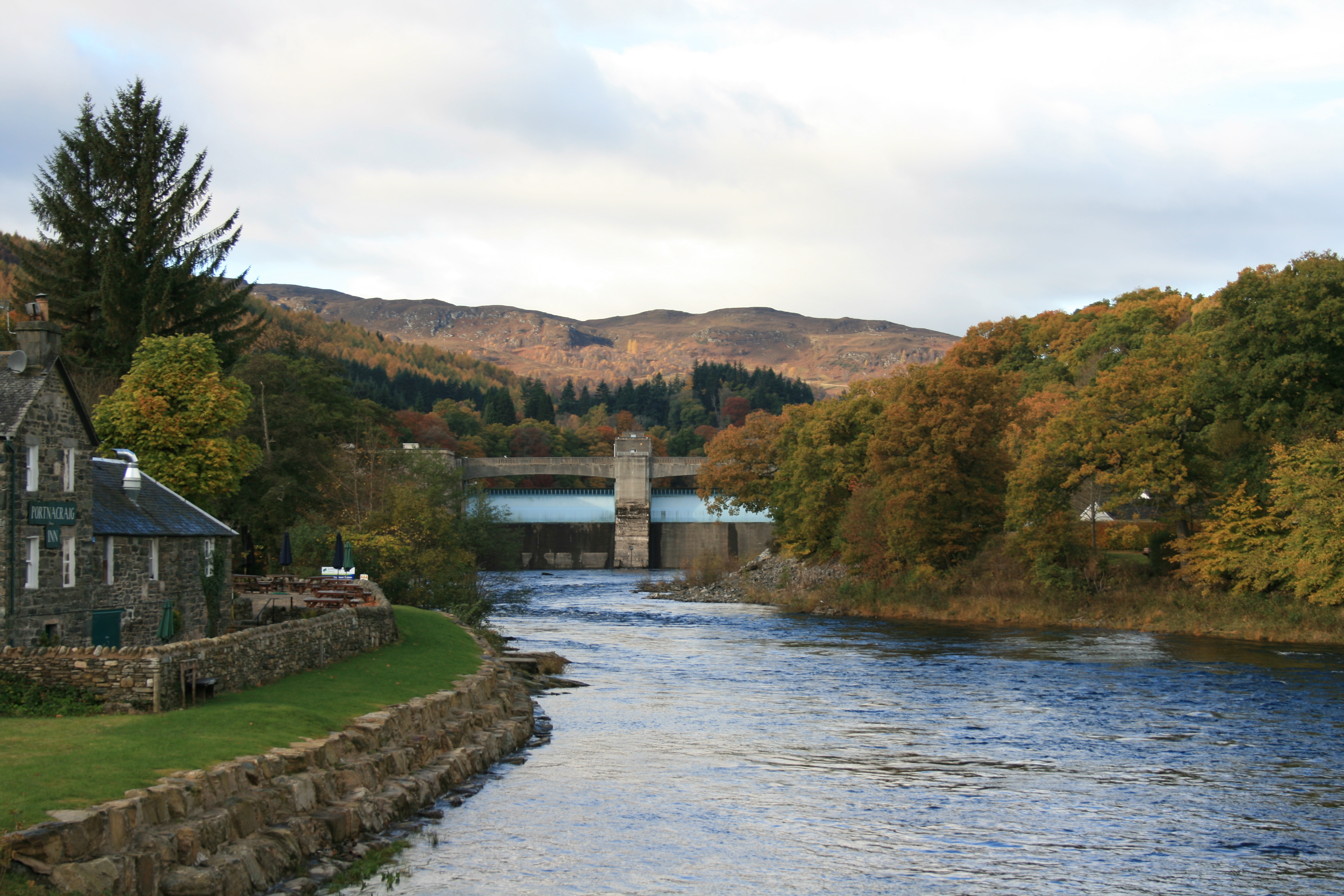 Pitlochry hydro-electric power station and the River Tummel. The Power Station dams the river creating Loch Faskally.